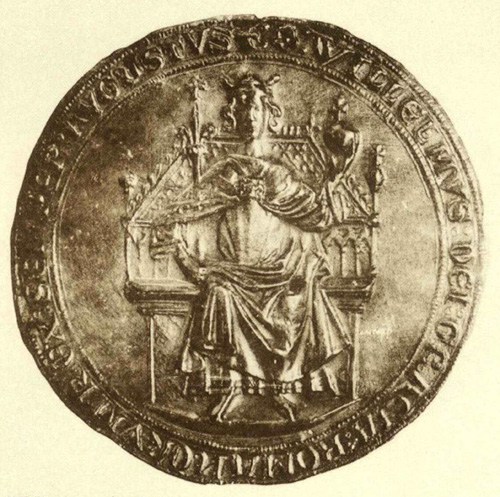 William II of Holland